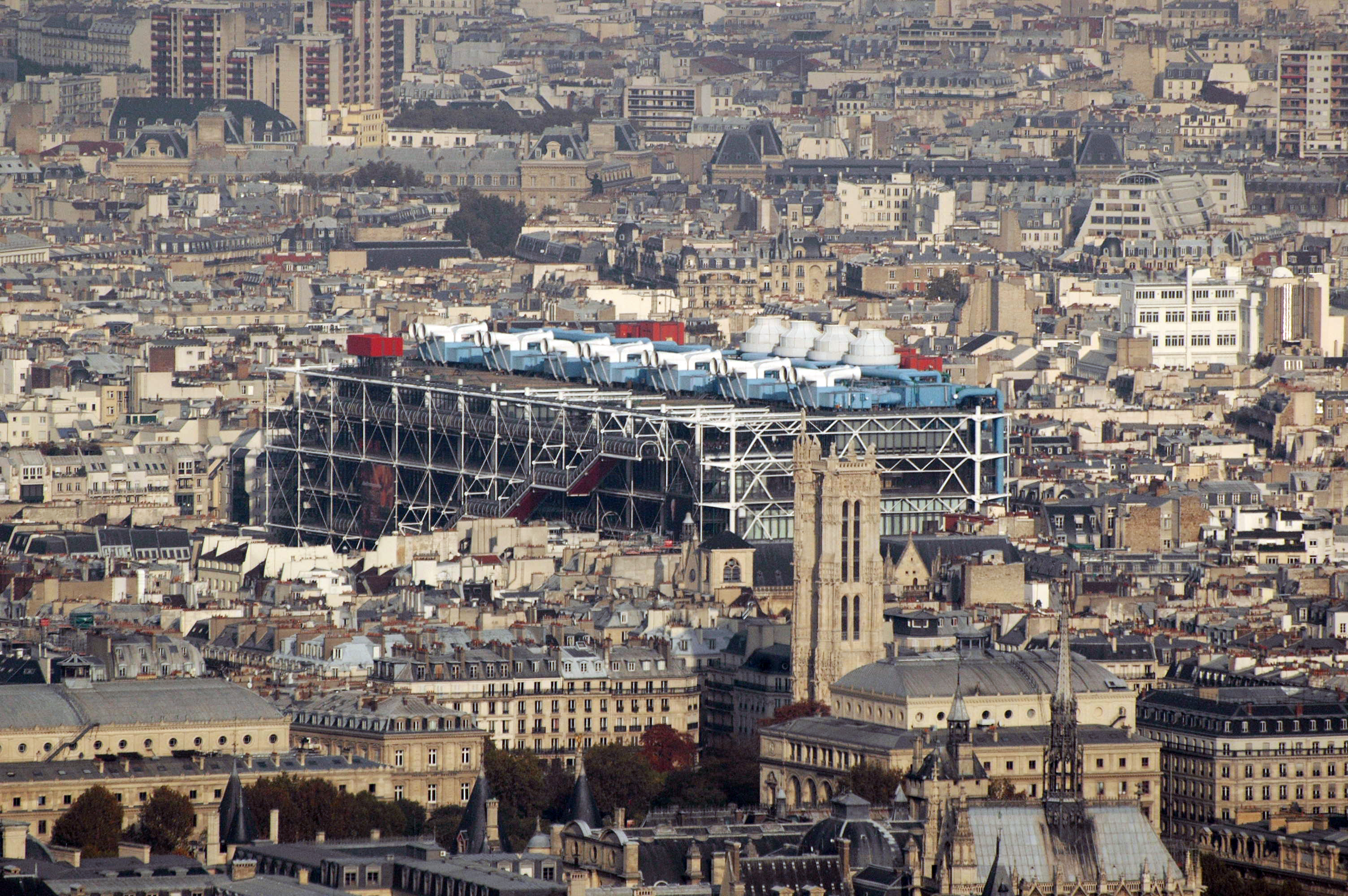 Centre Georges-Pompidou from the Montparnasse Tower.